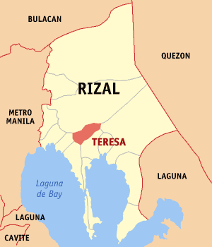 Locator map of Teresa in Rizal, Philippines.